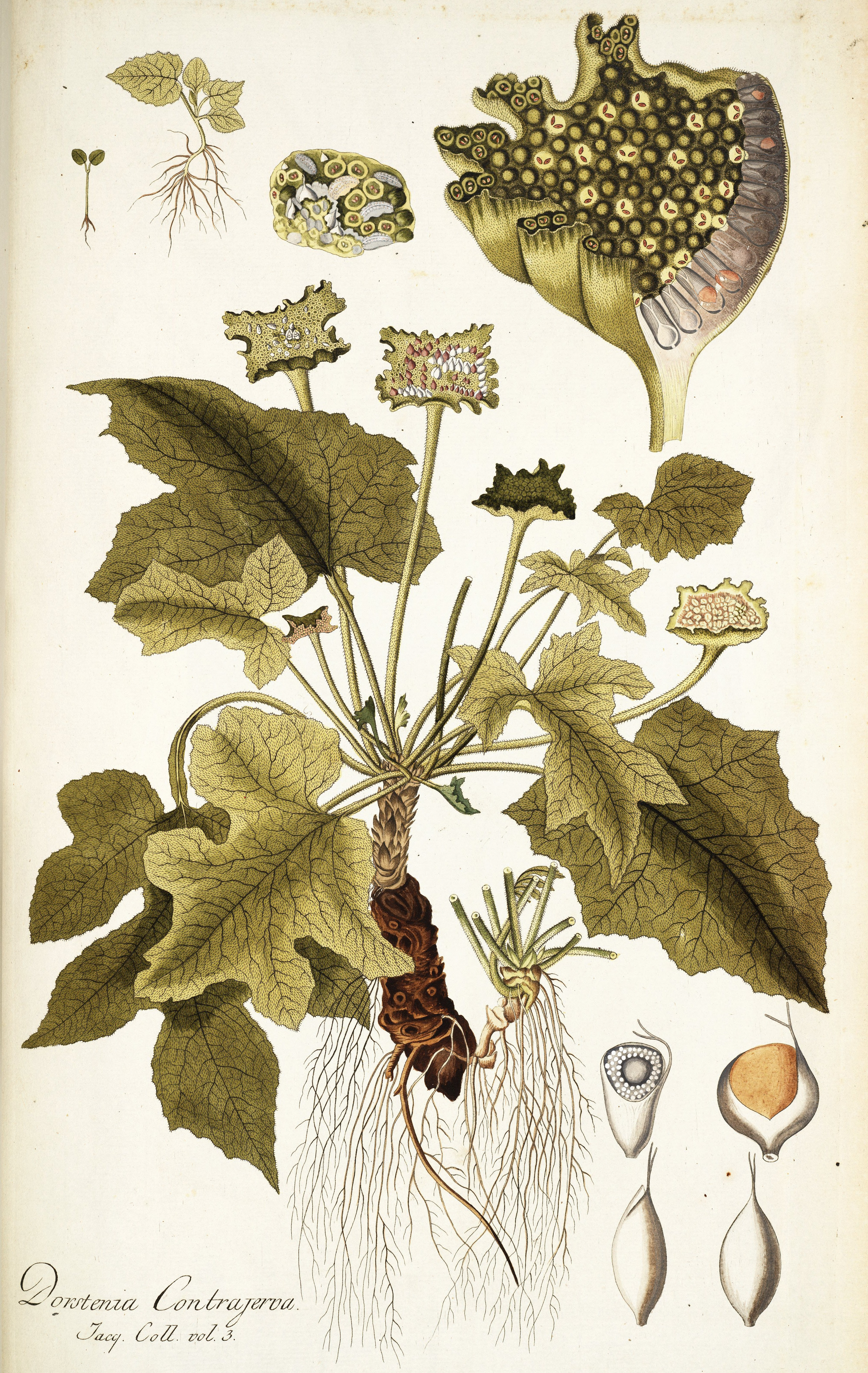 Dorstenia contrajerva. Illustration from Icones plantarum rariorum by N.J. von Jacquin, 1786-1793, vol. 3: t. 614.